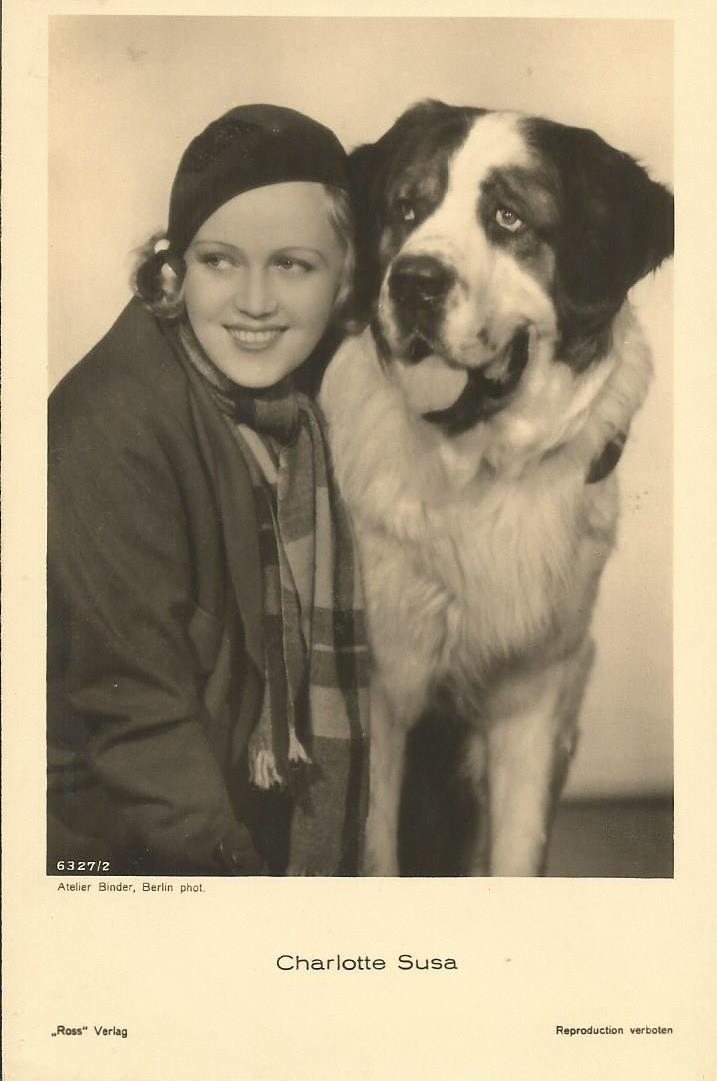 Charlotte Susa and her St. Bernard